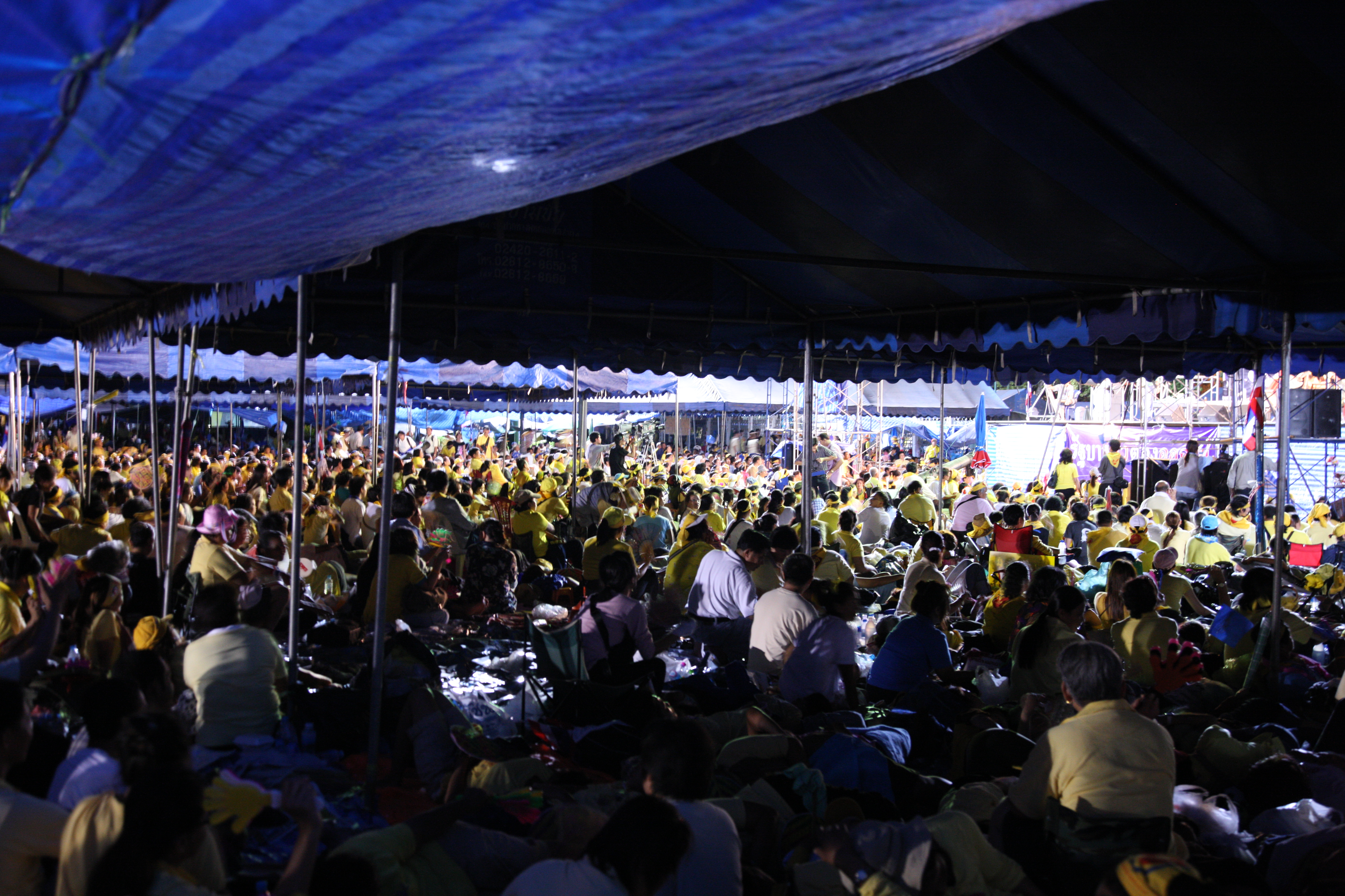 People's Alliance for Democracy (PAD) protest at the Government House, Bangkok, Thailand